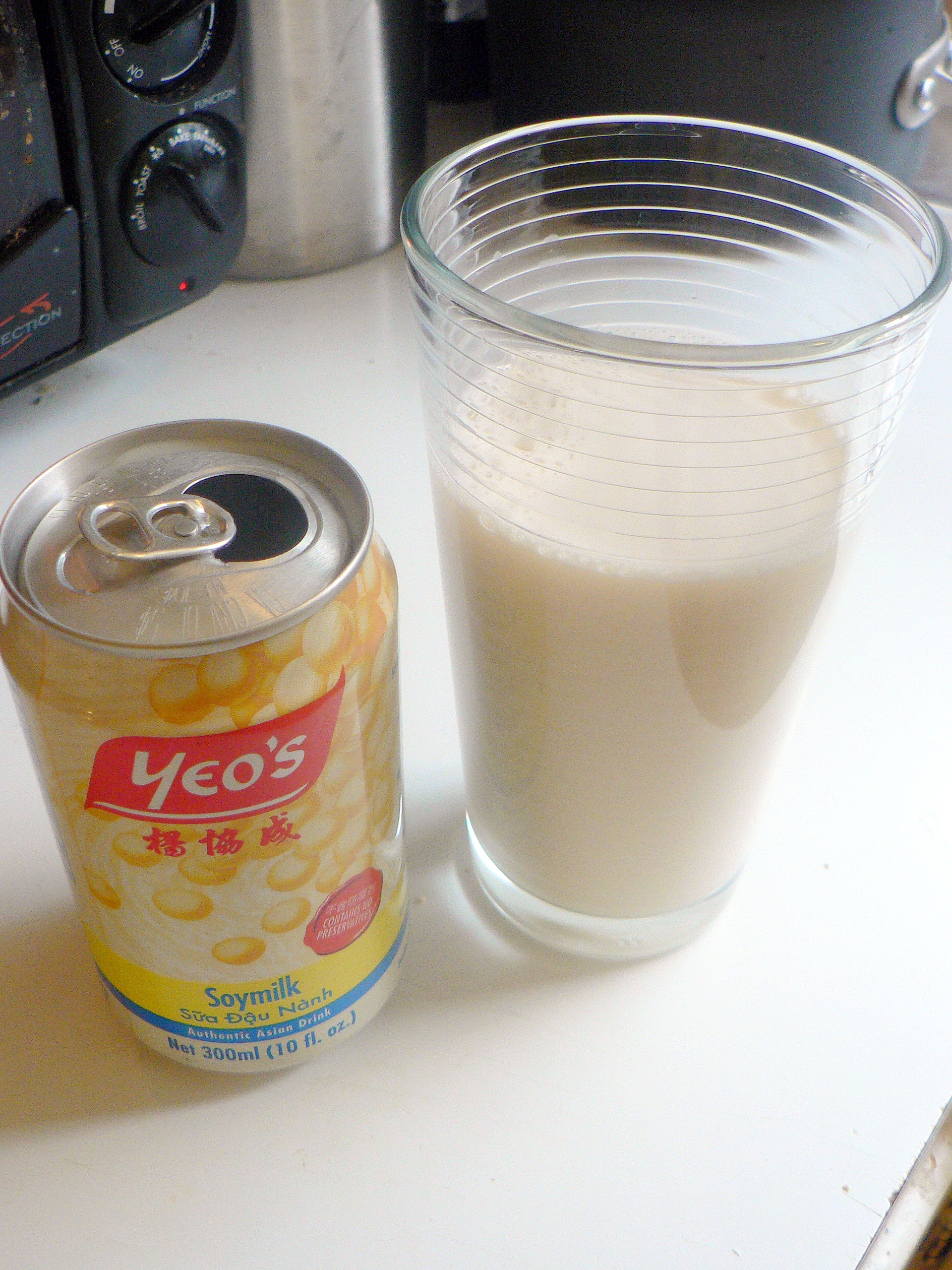 Brightened version of the Wikimedia photo, the old version is too dark